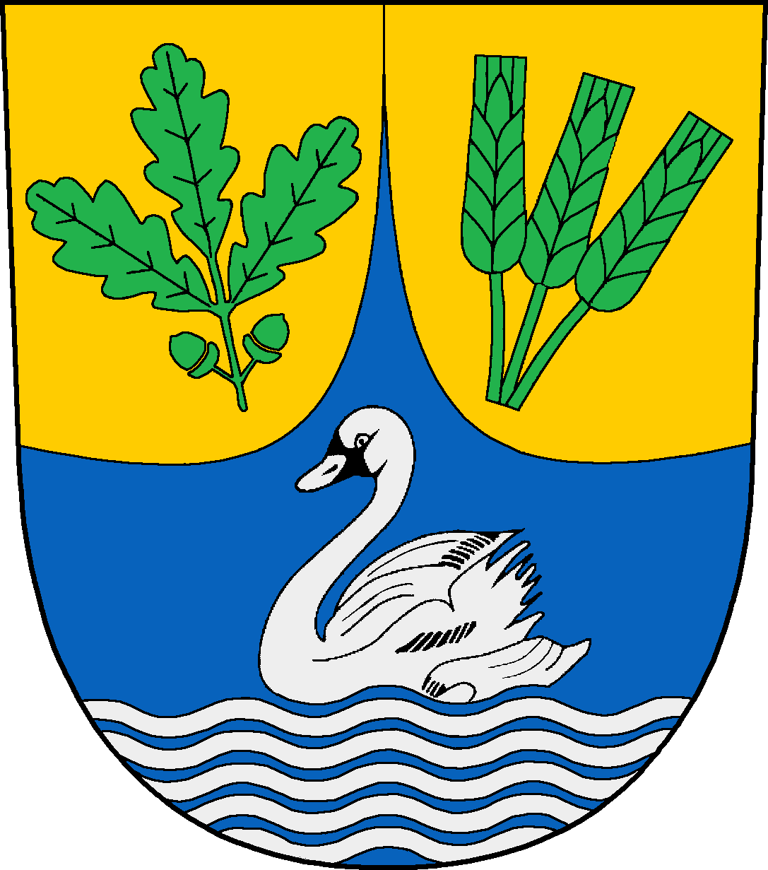 Coat of arms of the municipality Brodersby in Schleswig-Holstein, Germany.